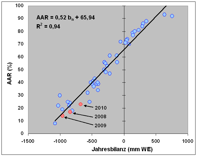 Annual mass balance and AAR of Vernagtferner 1965–2010, linear regression trendline; last three years marked; years with AAR=0 (2003) not included